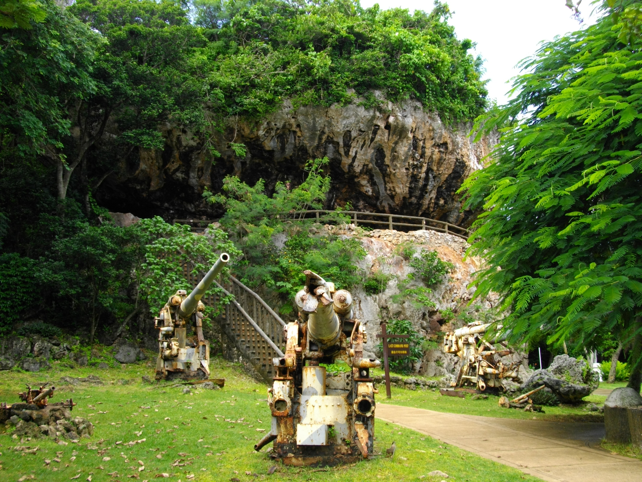 Last Command Post in Saipan